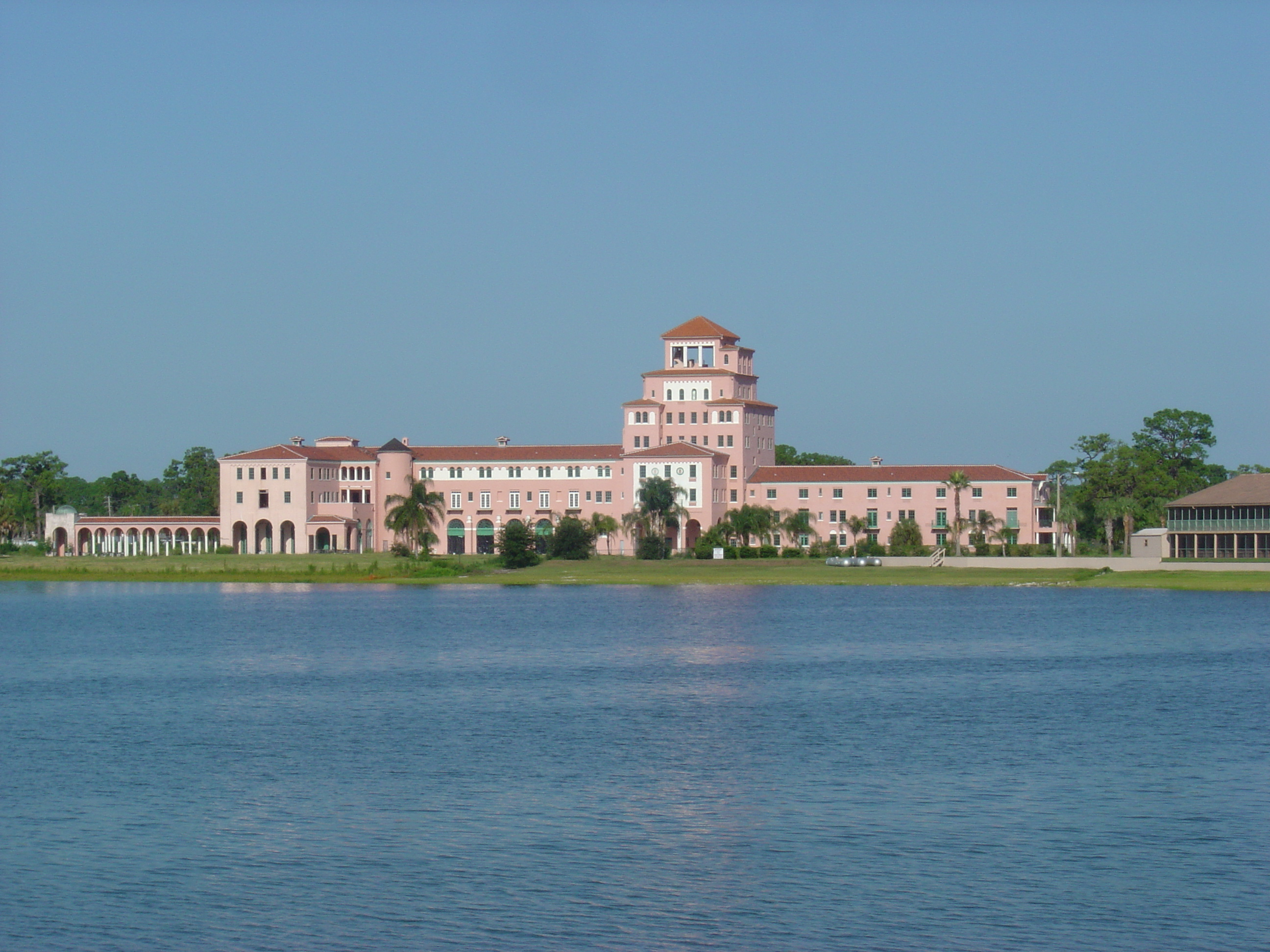 Harder Hall, on shore of Little Lake Jackson, Sebring, Florida